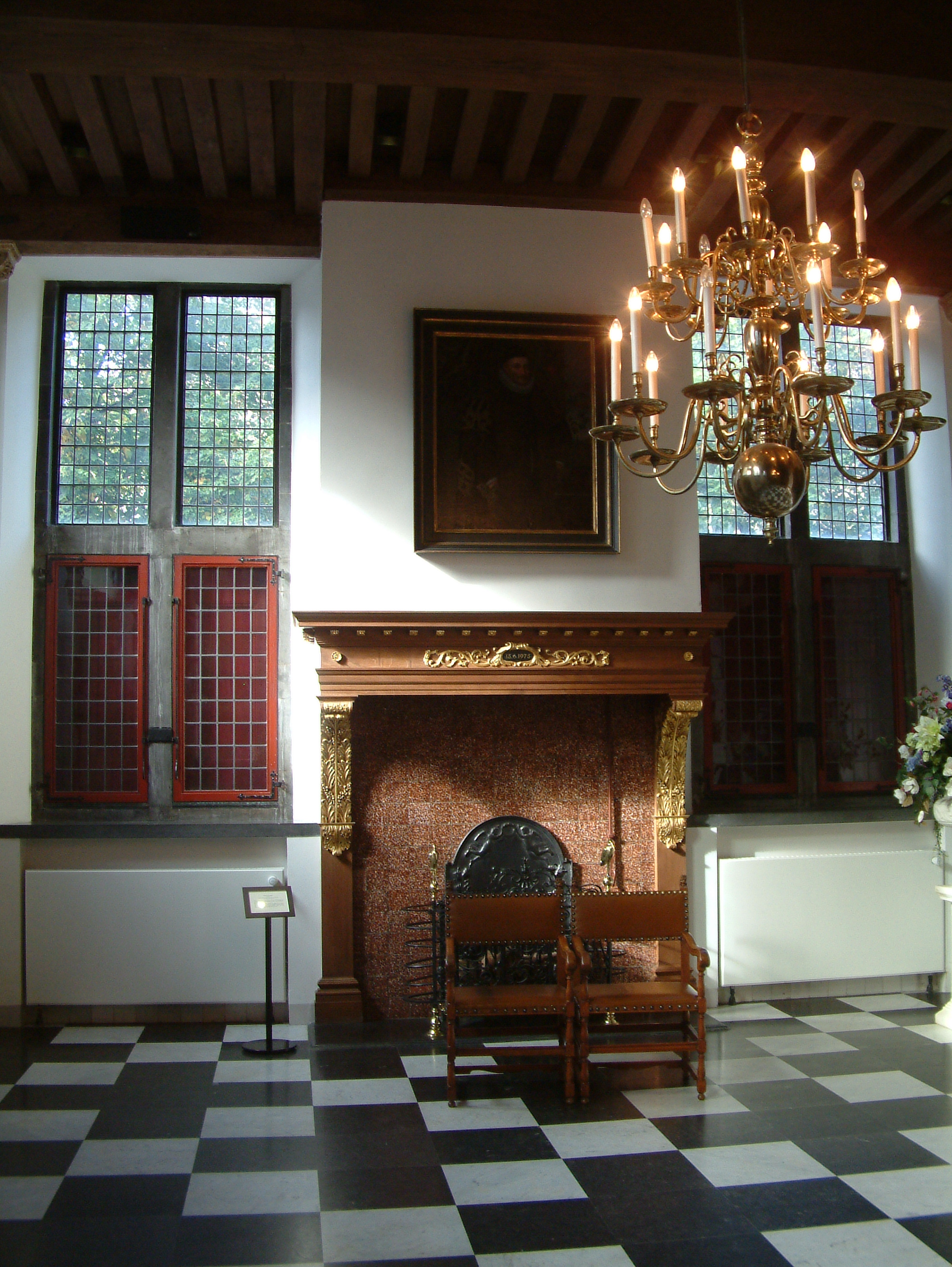 The old townhall of The Hague